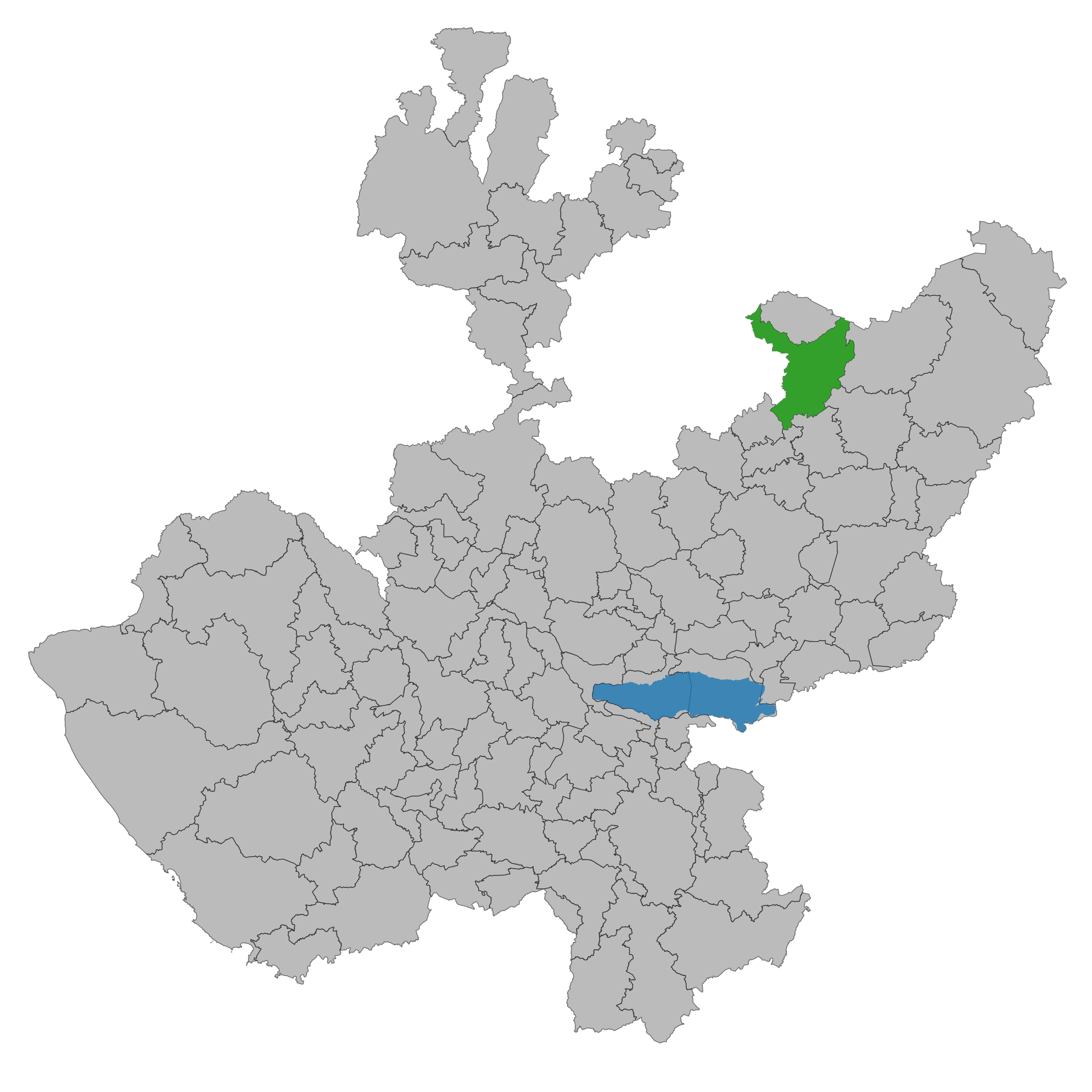 Municipality of Jalisco. Prepared with the software QGIS version 2.8.2 Wien & with information of SCINCE 2010 version 05/2013